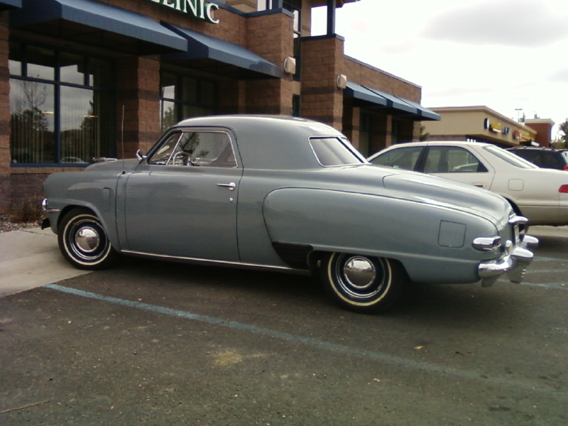 A Studebaker parked at a shopping center in Great Falls, MT.